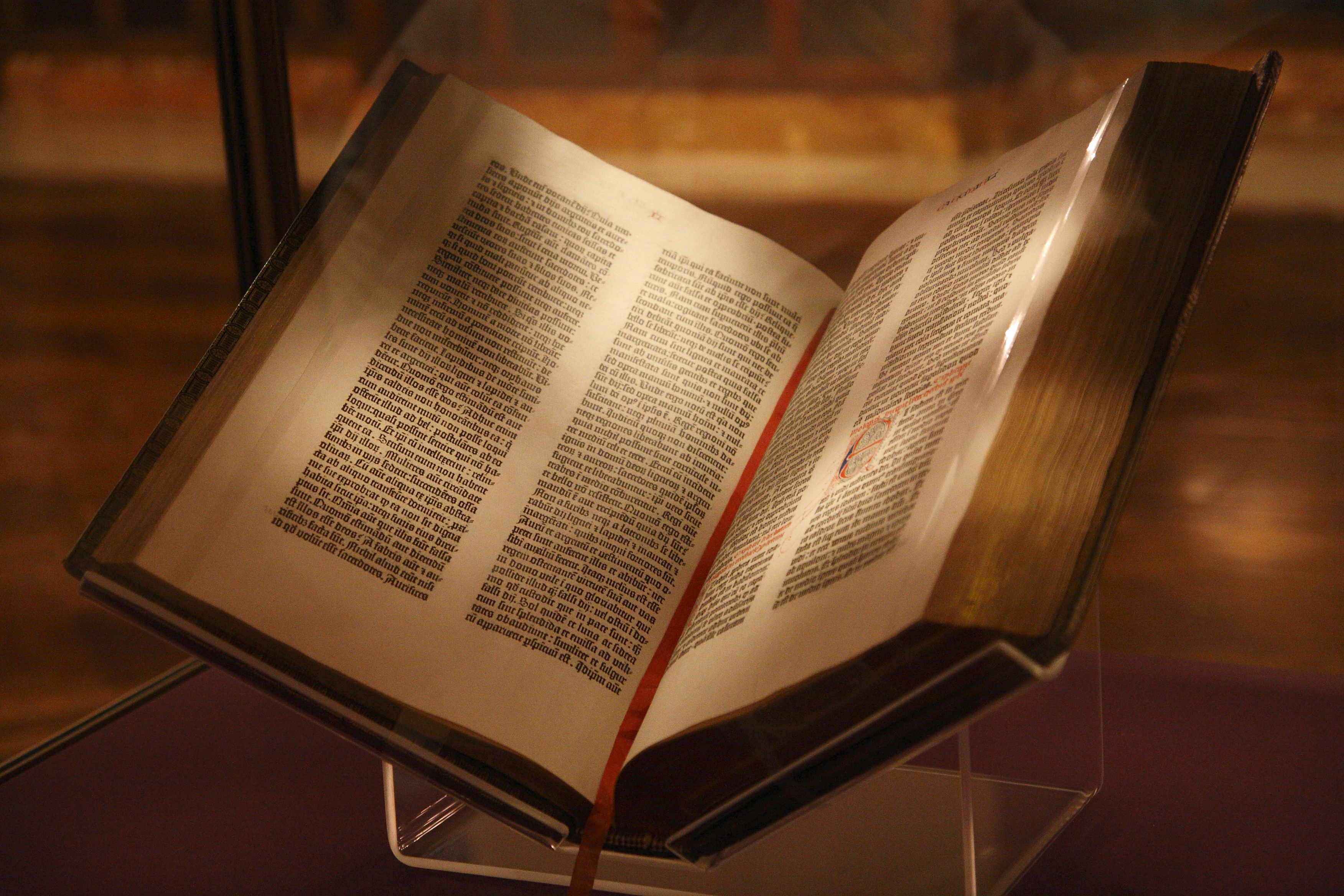 Gutenberg Bible on display at the New York Public Library